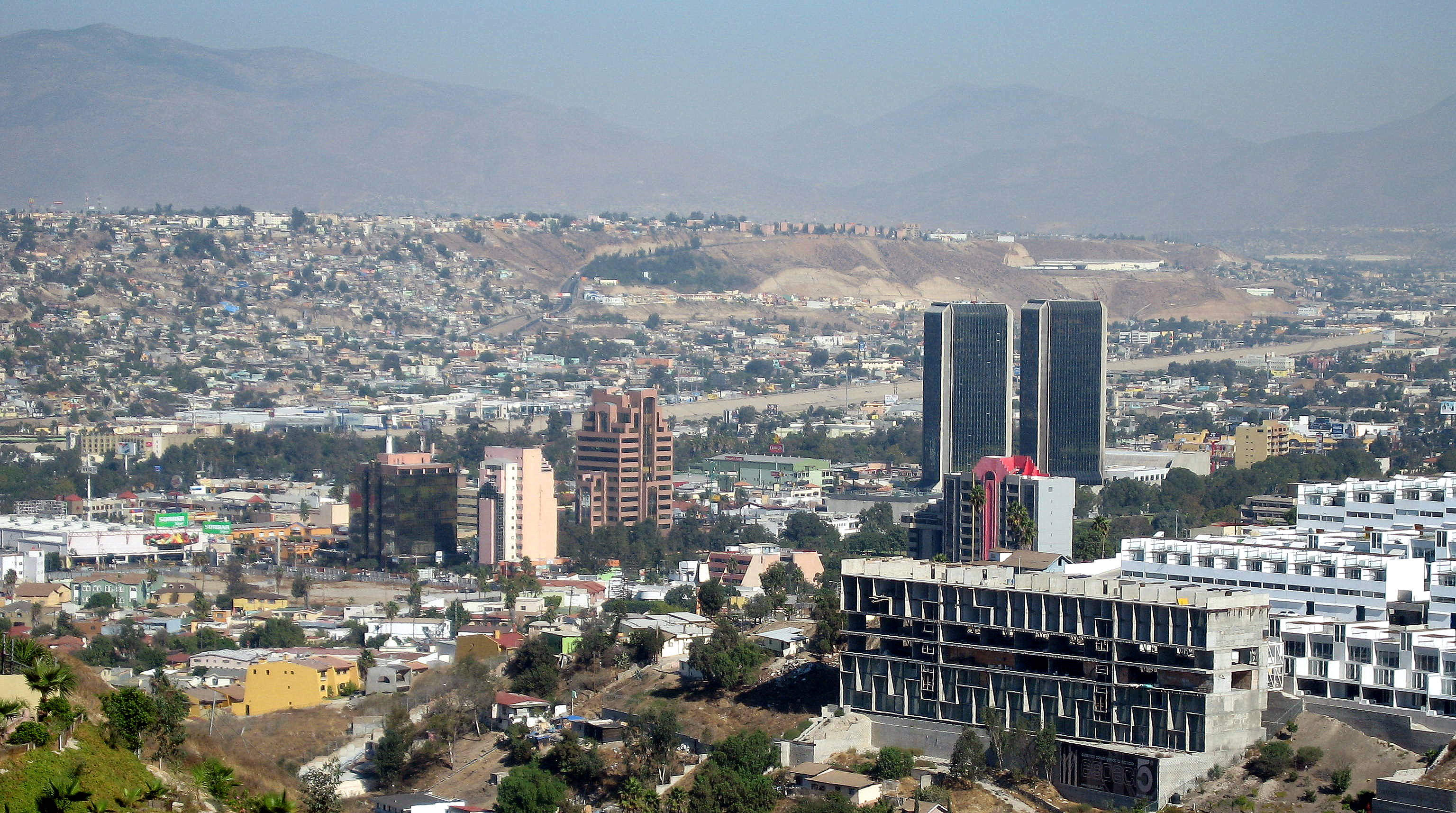 Skyscrapers of Tijuana